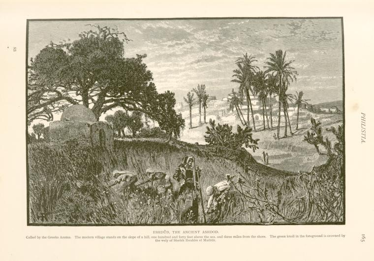 Wood engravings of Eshdûd, the ancient Philistine city of Ashdod. Called by the Greeks Azotus. An Arab town, called Isdûd, built sometime during the Fatimid era, stood until 1948 on the slope of the tell (mound), one hundred feet above the sea, and three miles from the shore. The modern Israeli port city of Ashdod has been built in 1956 6km north of this tell. The green knoll in the foreground is crowned by the wely of Sheikh Ibrahim el Matbûk.